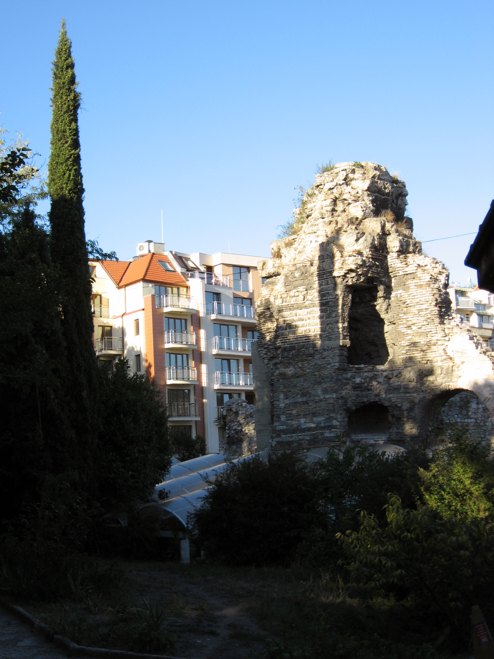 Ancient Roman Baths in Varna, Bulgaria